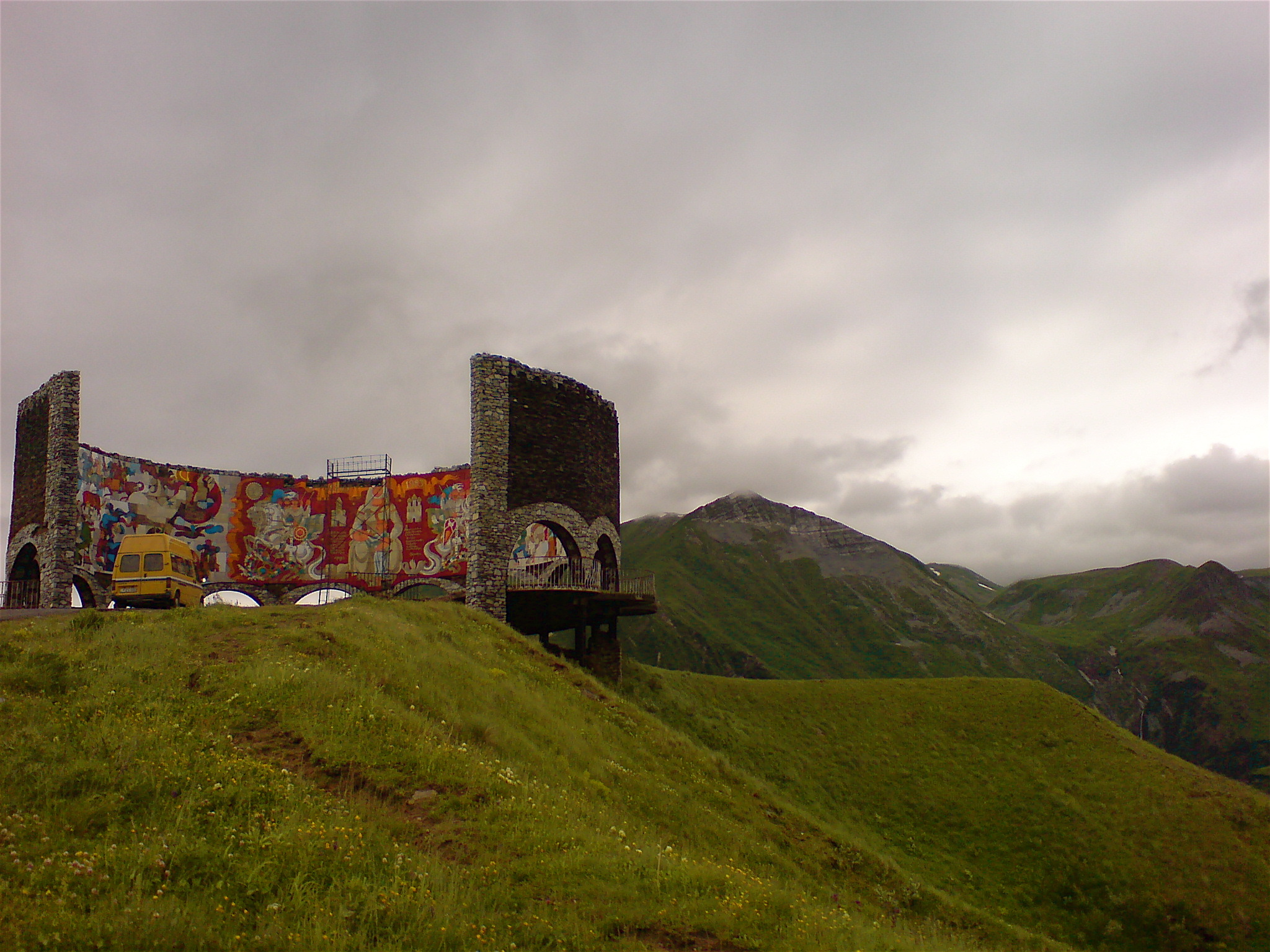 At Devil's Valley one encounters this massive 70 metres long Soviet mural on the inside of a platform, precariously balancing on a dizzying cliff to the abyss below, was created in 1983 to celebrate the 200th anniversary of the Treaty of Georgievsk - a truce between Georgia and Russia - alas, celebrating the relations across the Caucasian mountains. The monument is known as the Russia-Georgia Friendship Monument or the Treaty of Georgievsk Monument. Today the border is closed between Georgia and Russia.